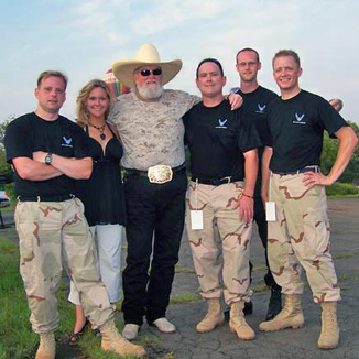 Afterburner (part of the United States Air Force Band of Liberty) was the opening act for the Charlie Daniels Band at the New Jersey Festival of Ballooning